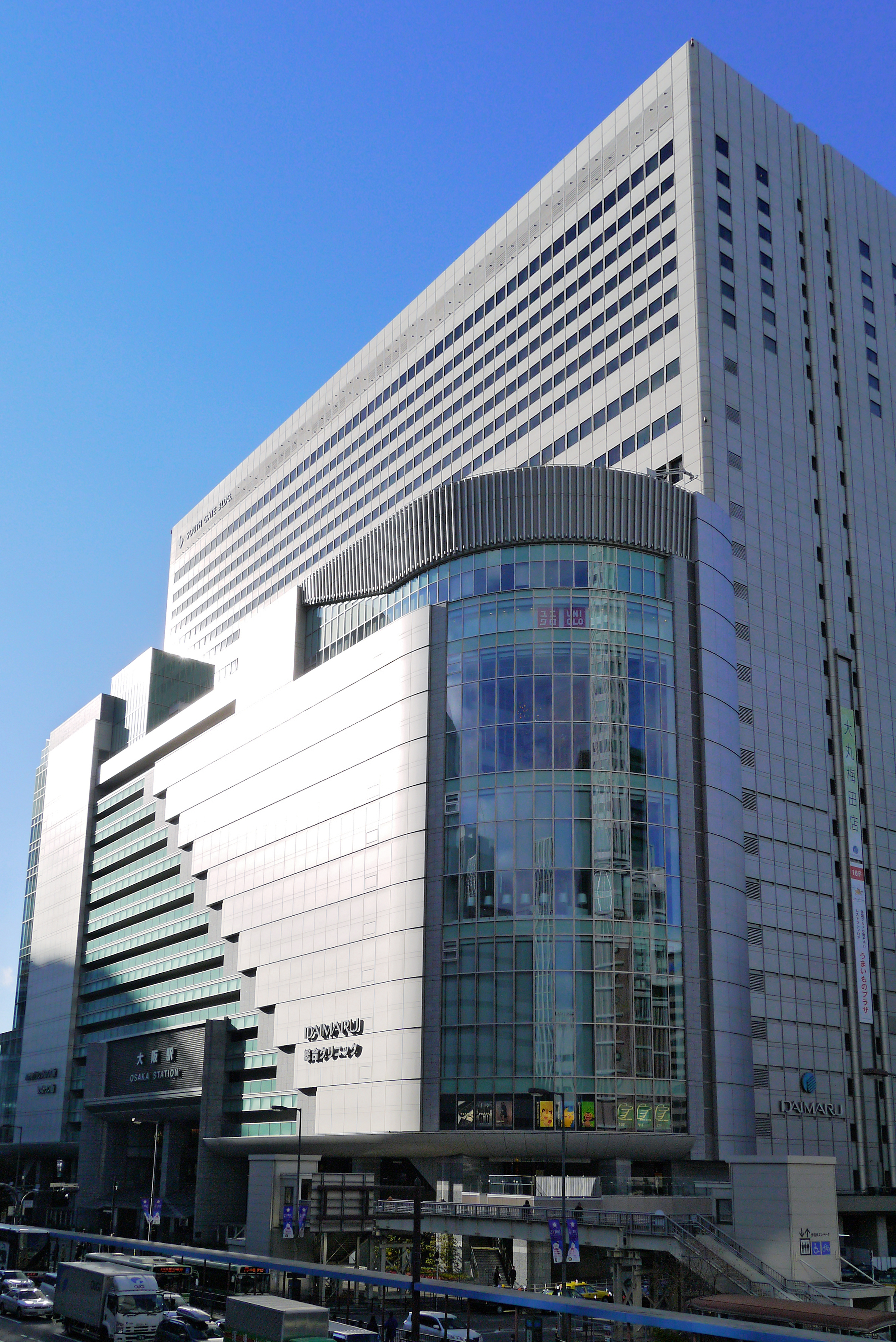 South Gate Building (サウスゲートビルディング), Osaka Station City, Osaka, Osaka prefecture, Japan